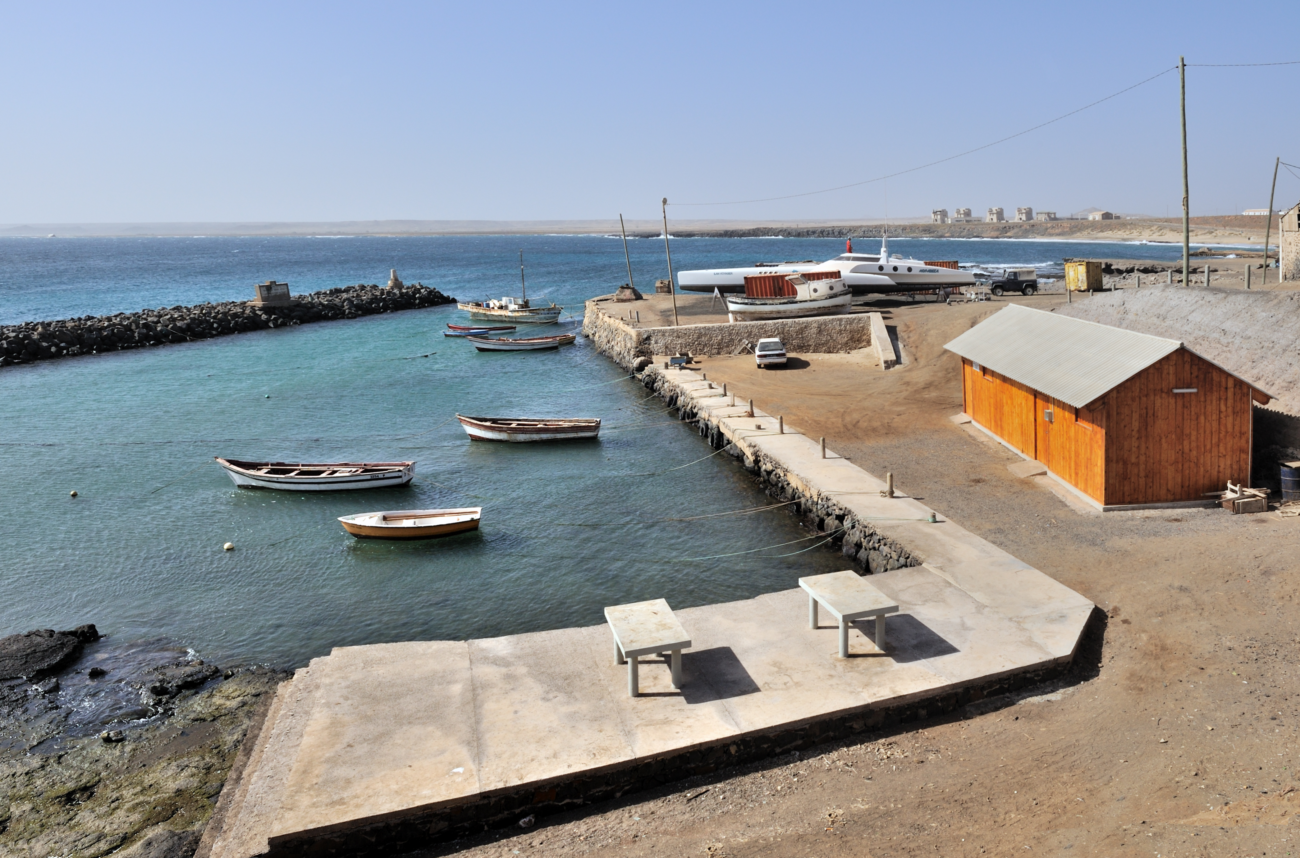 Cape Verde,isle of Sal: fishing port at Palmeira.